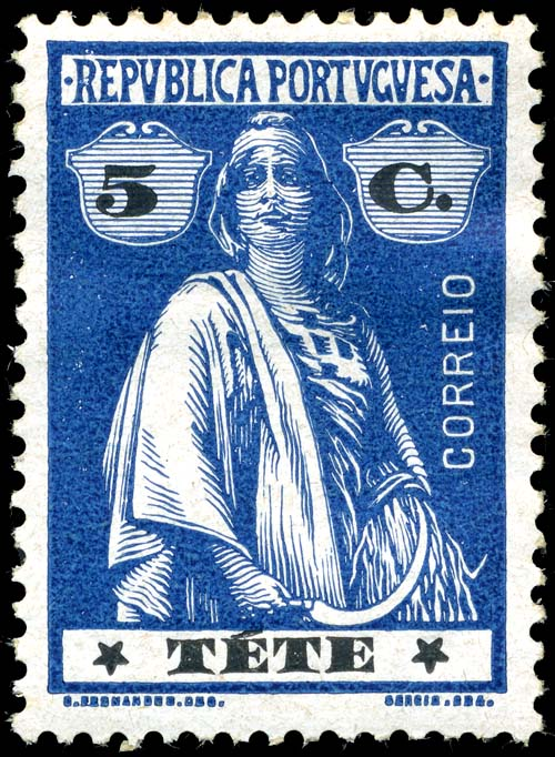 2Tete 5-centime stamp of 1914